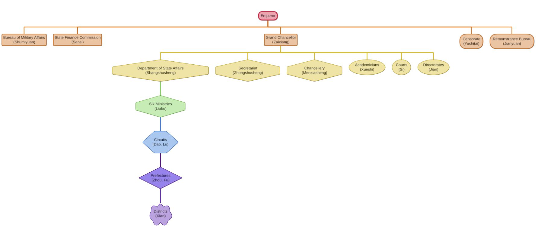 Song government structure